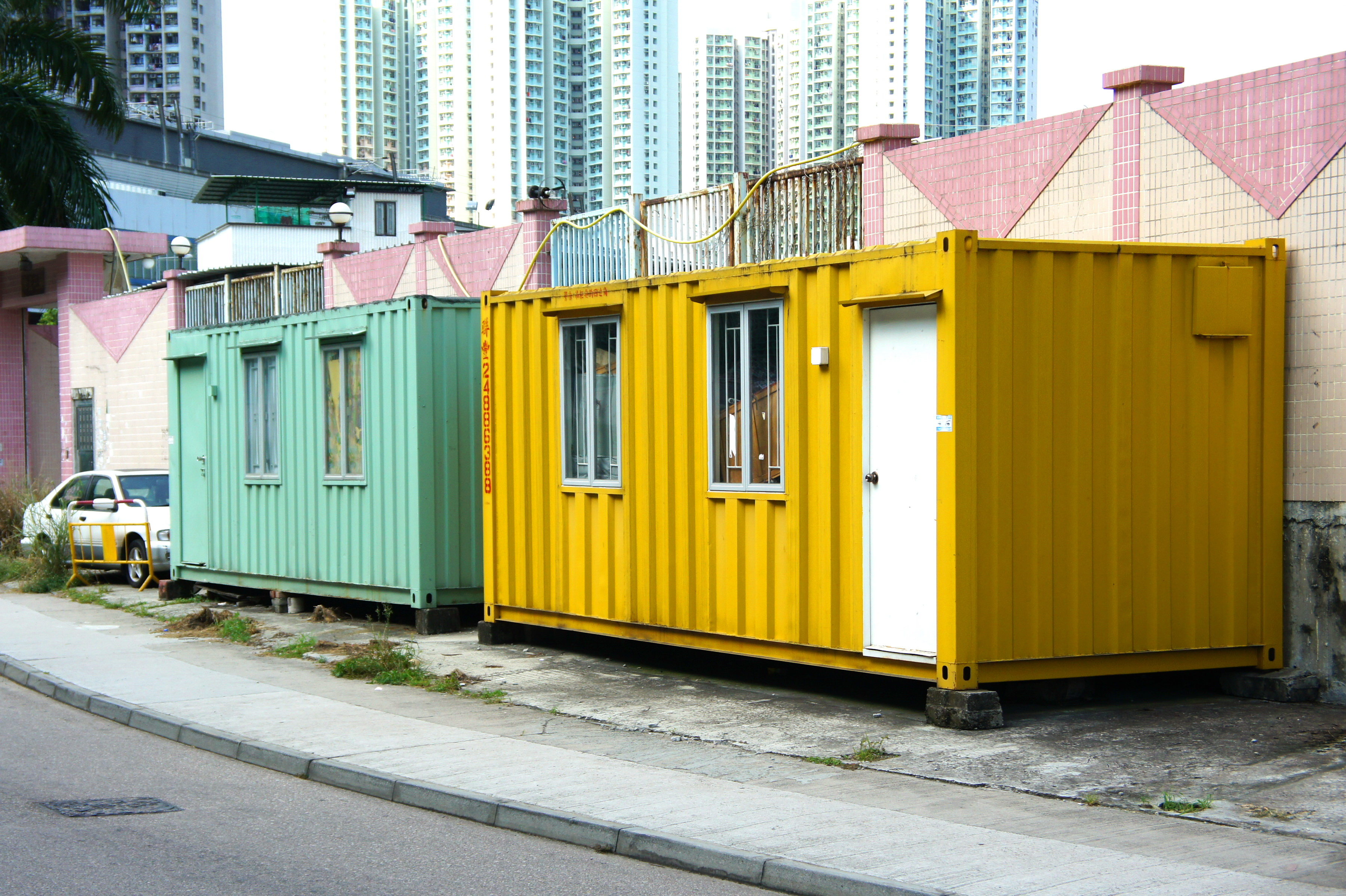 Container offices in Hong Kong.